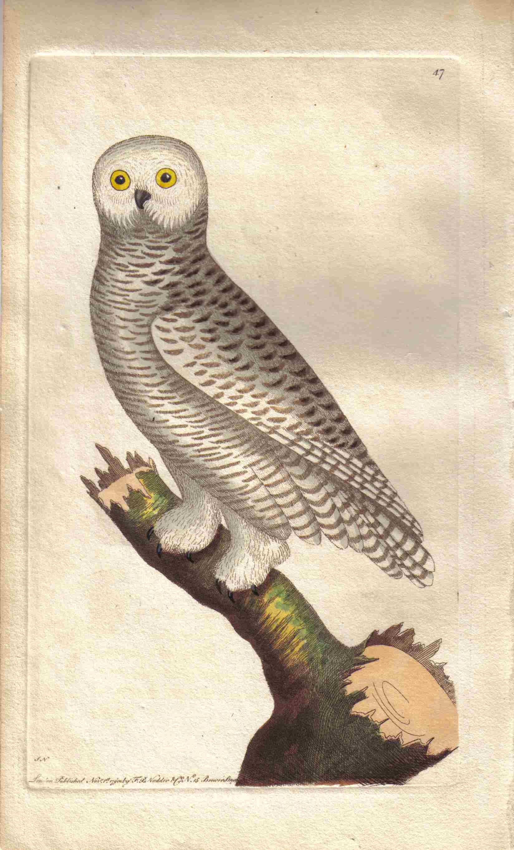 Bubo scandiacus. This picture is from the survey for the US Pacific Railroad, in particular from the report by Lieutenant Henry L Abbot, on the routes in Oregon and California explored by parties under the command of Lieutenant R. S. Williamson, in 1855 (from the Sacramento Valley to the Columbia River).